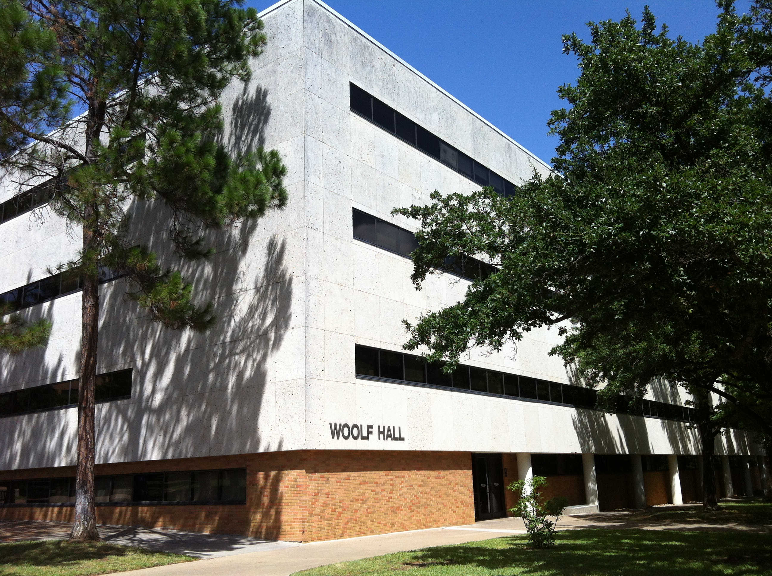 Woolf Hall, University of Texas at Arlington, Arlington TX 76019